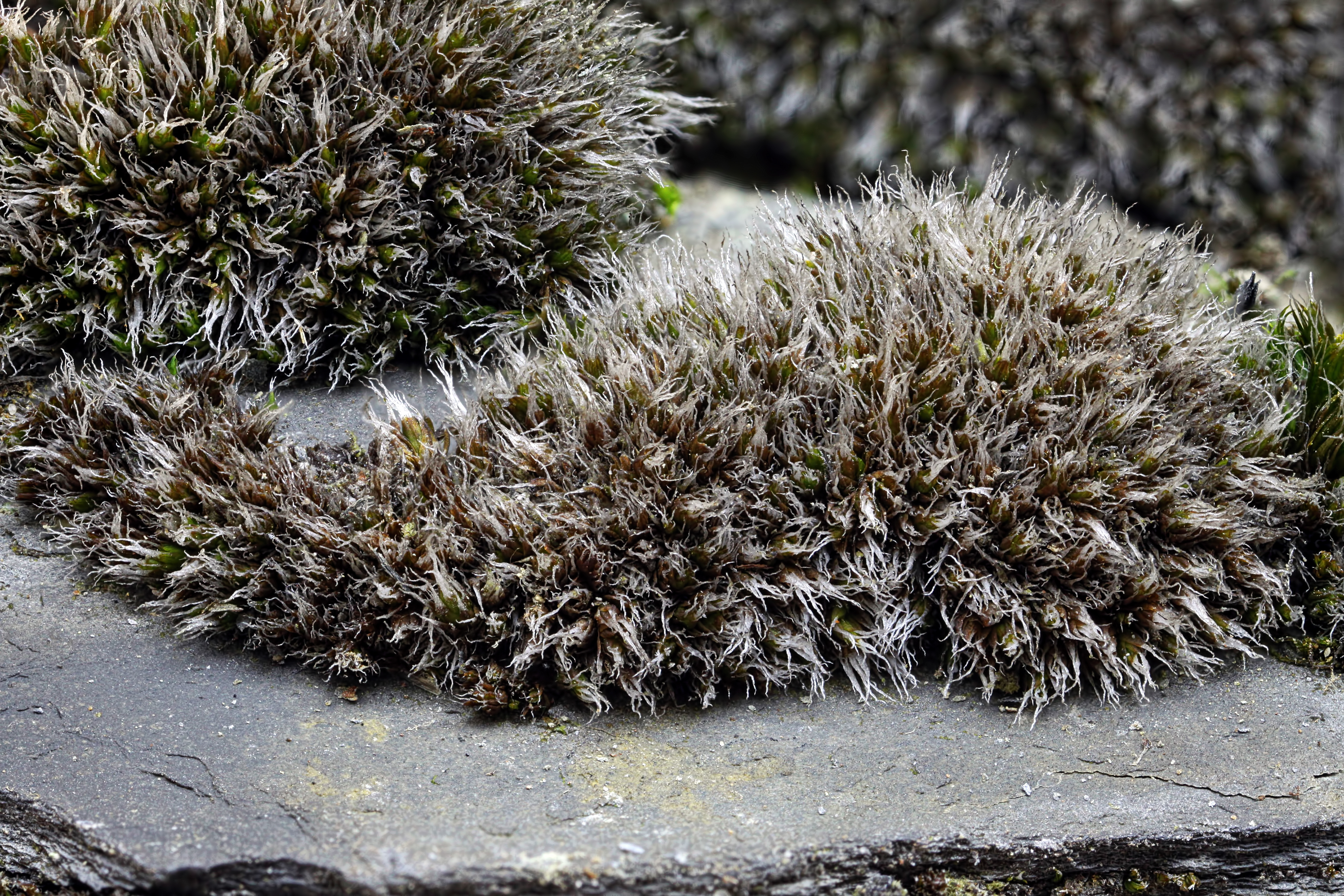 Gametophyte of Coscinodon cribrosus on shale rock